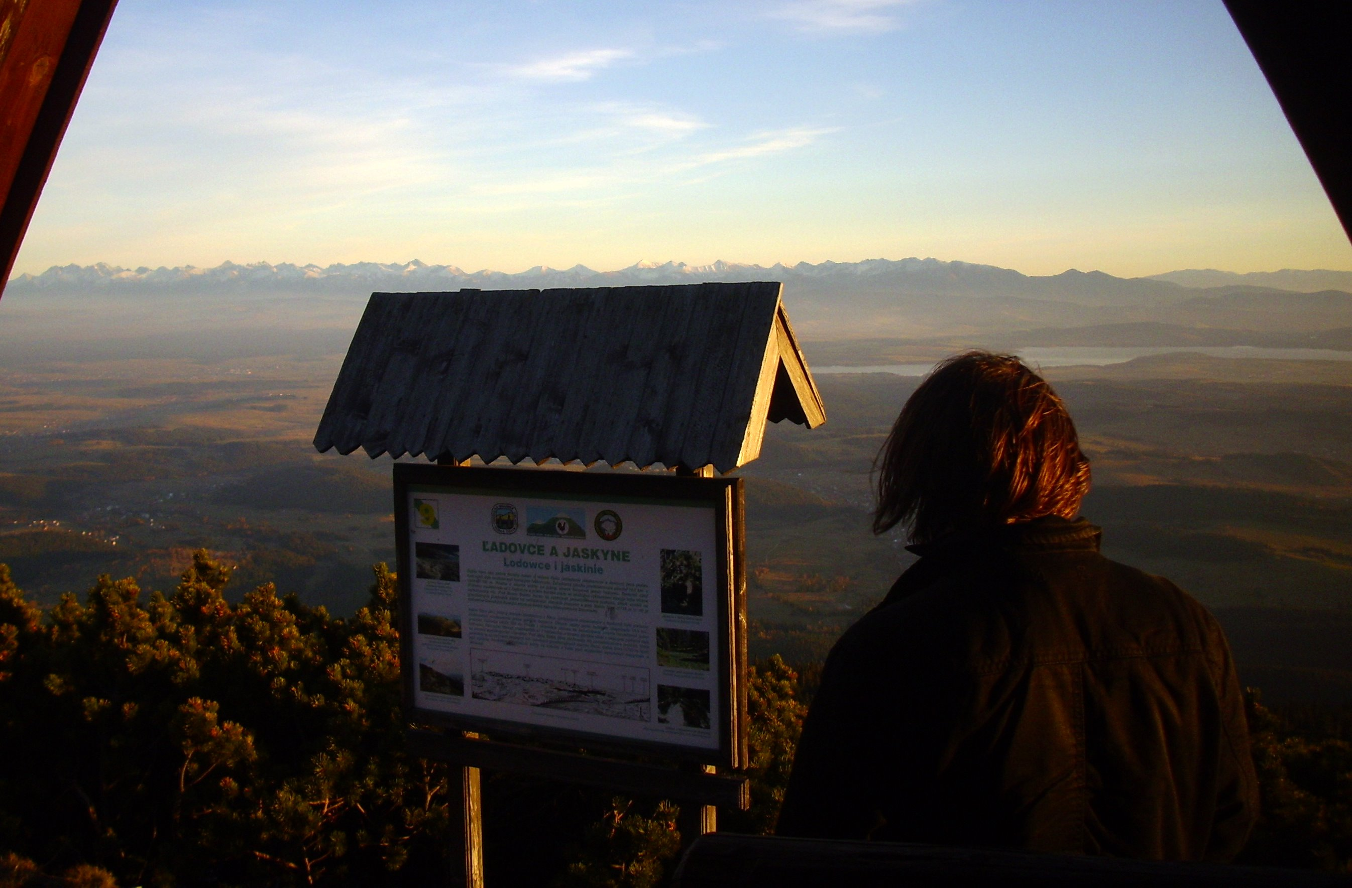 Tatra Mountains as seen from Babia Gora